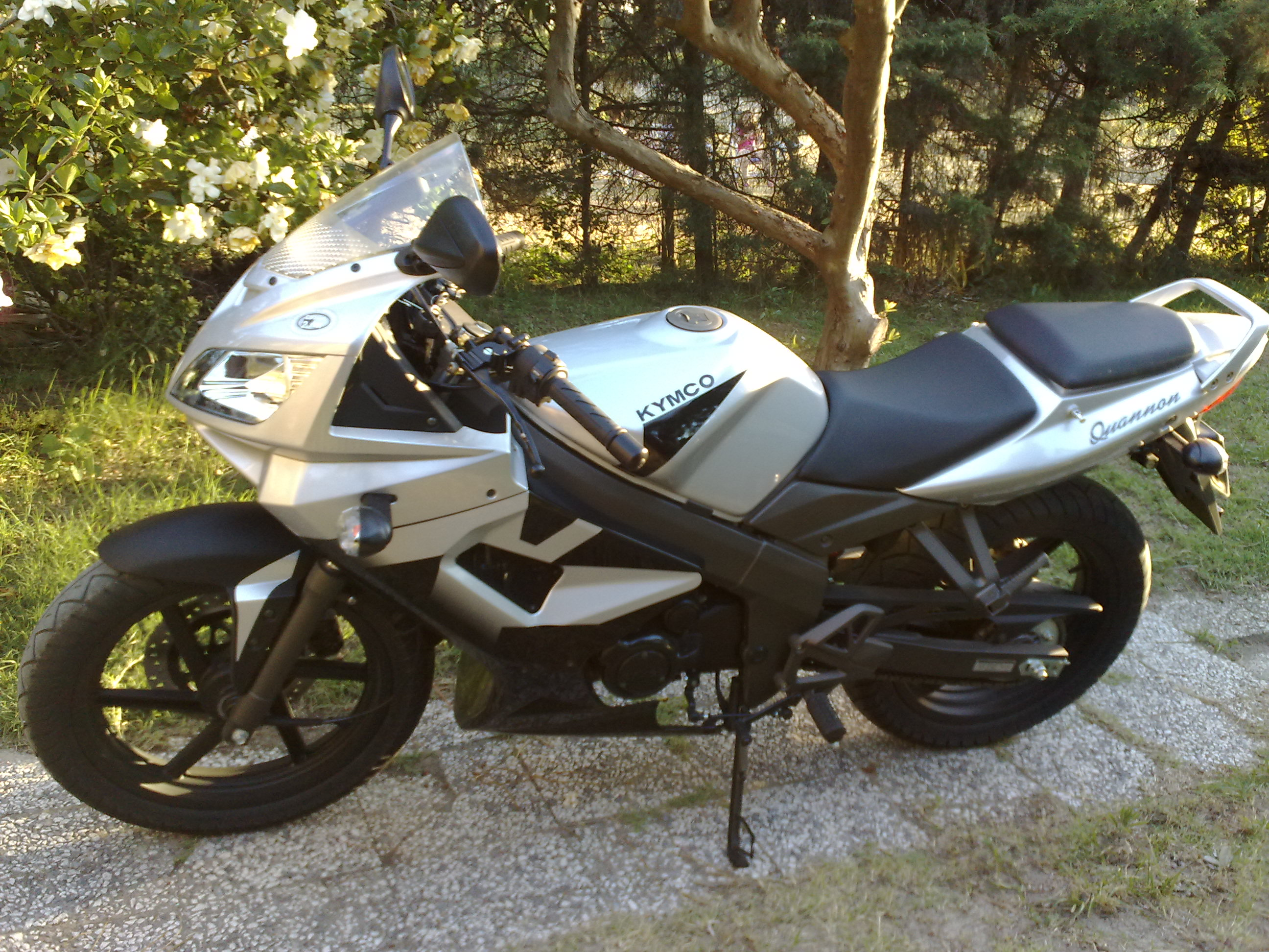 Silver Kymco Quannon 125